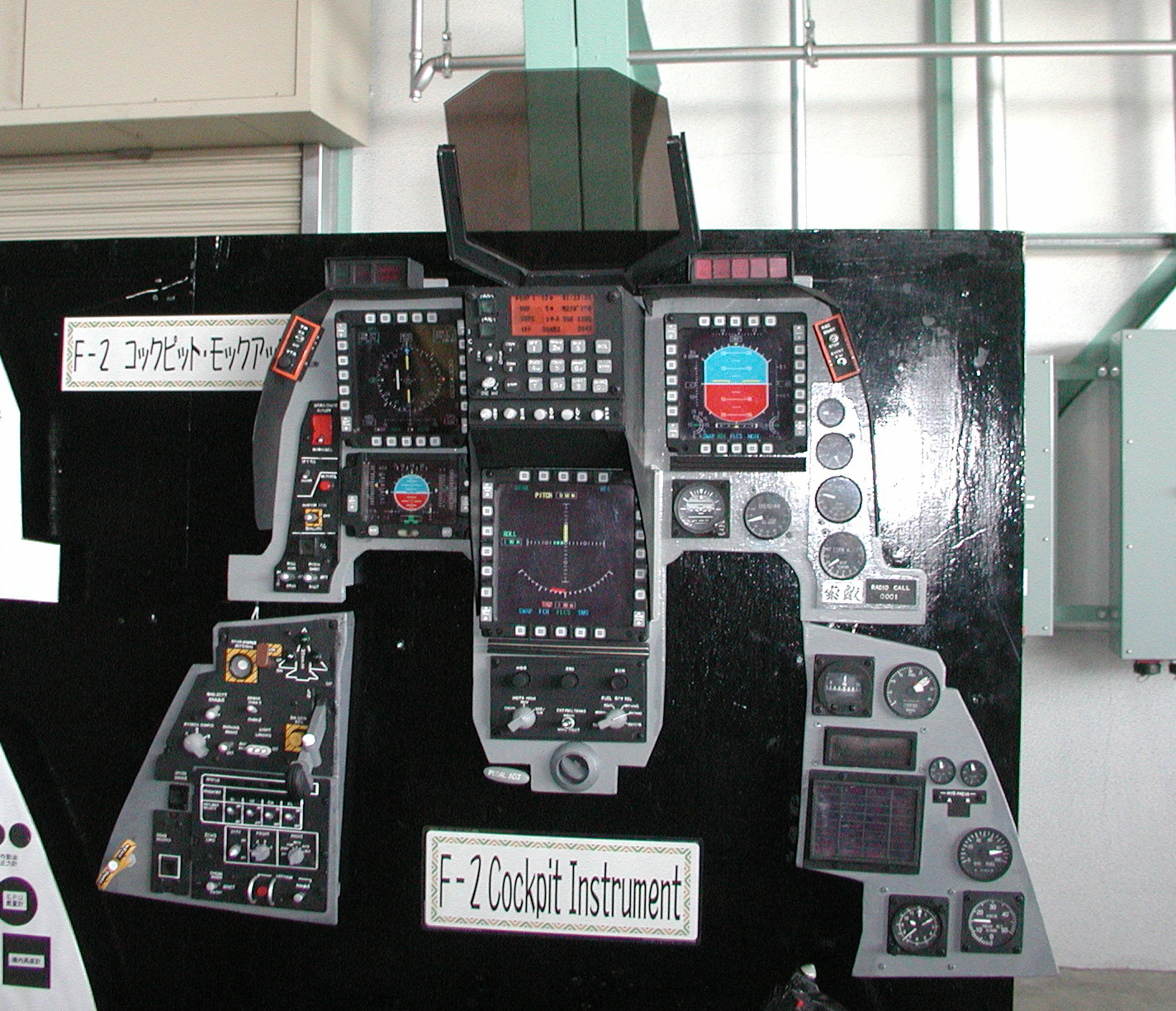 Subject: F-2 Cockpit the JASDF displayed at JASDF kagamigahara AB Source: photo by Maryu, taken 2007/10/28